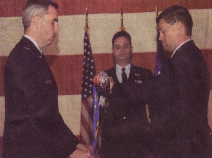 1 SPCS Inactivation guidon furling